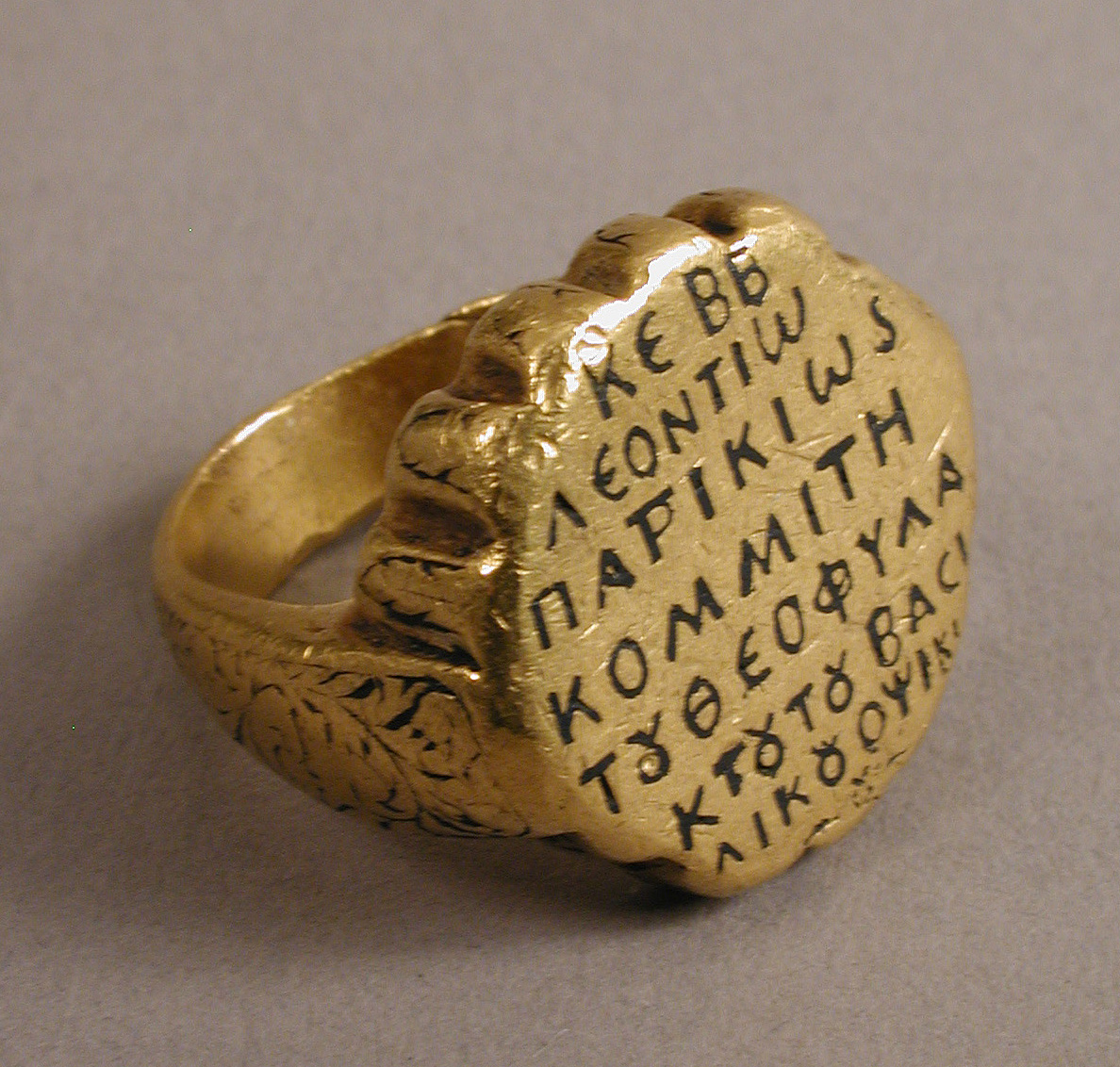 Byzantine; Ring; Metalwork-Gold